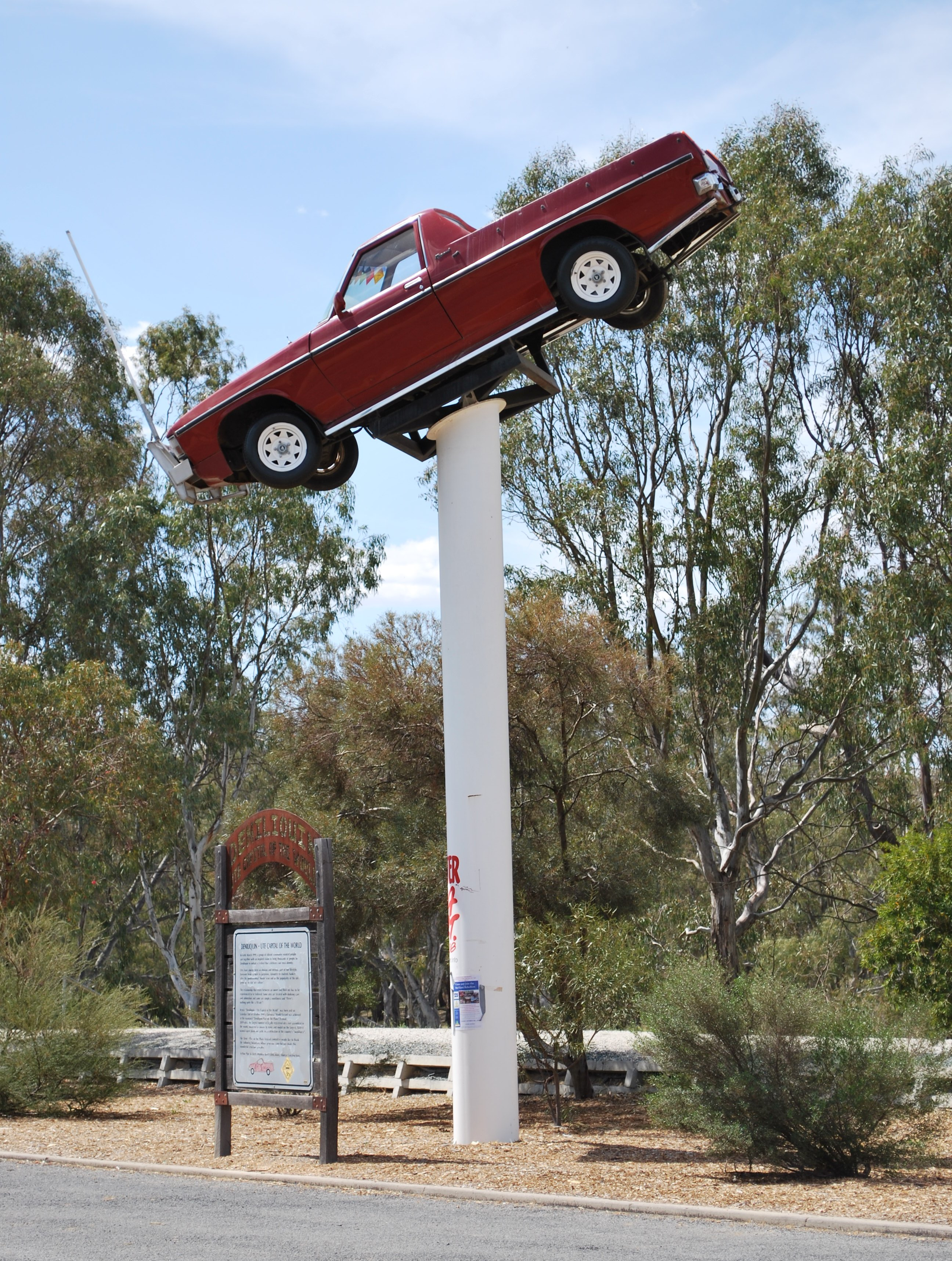 The "Ute on a stick" at Deniliquin, New South Wales